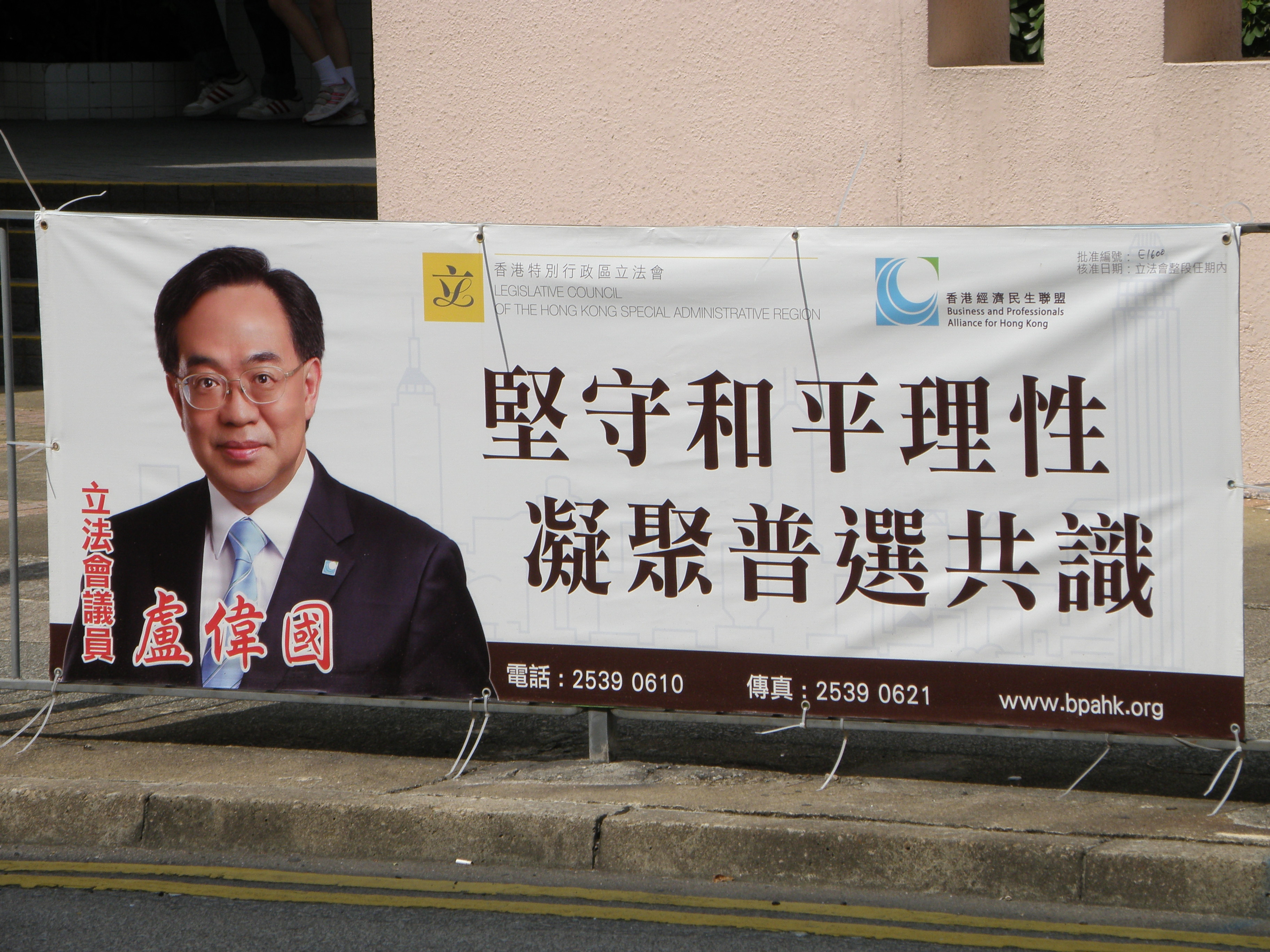 Lo Wai-kwok, member of the Legislative Council of Hong Kong.